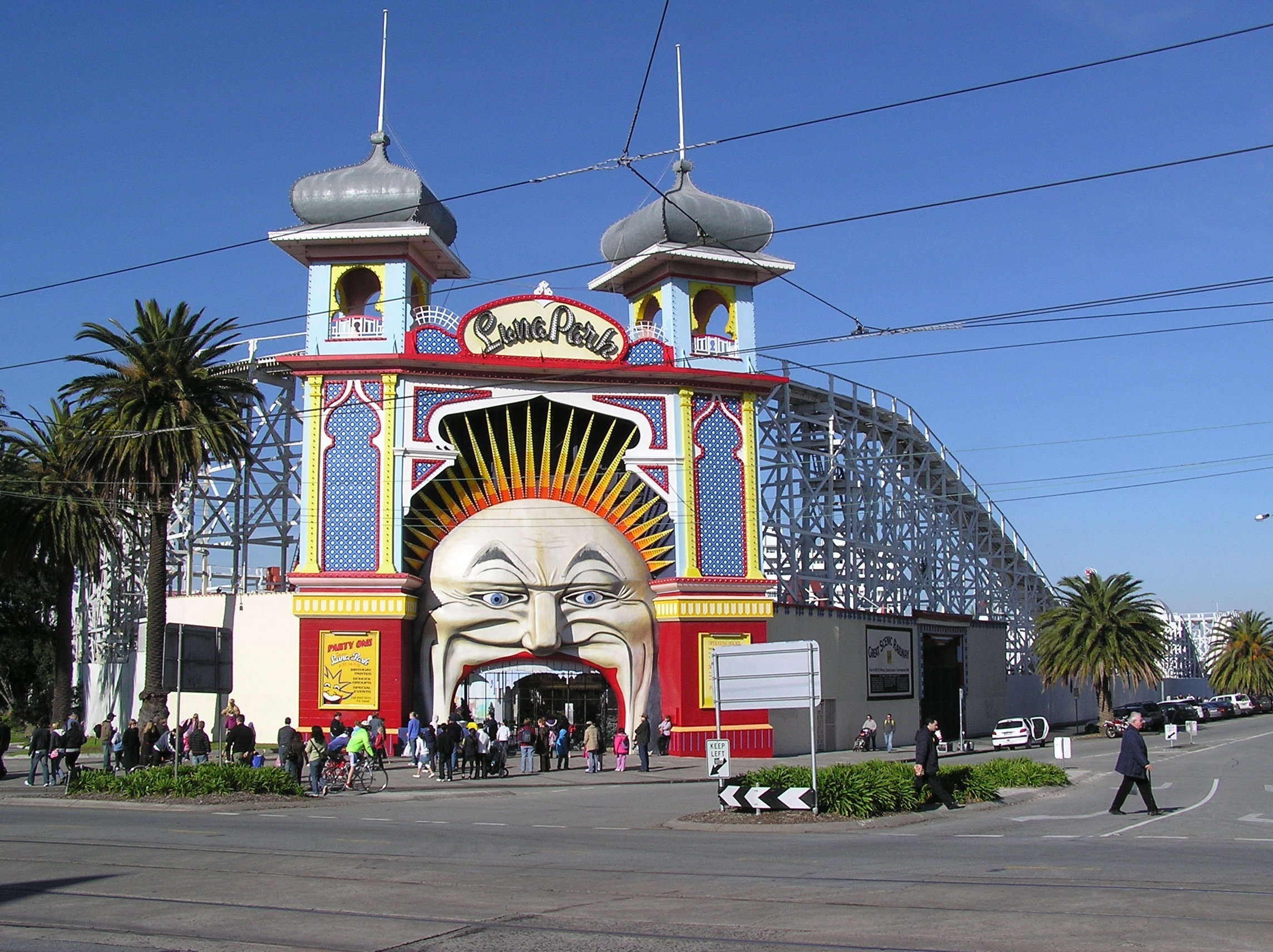 Luna Park in St Kilda, Melbourne